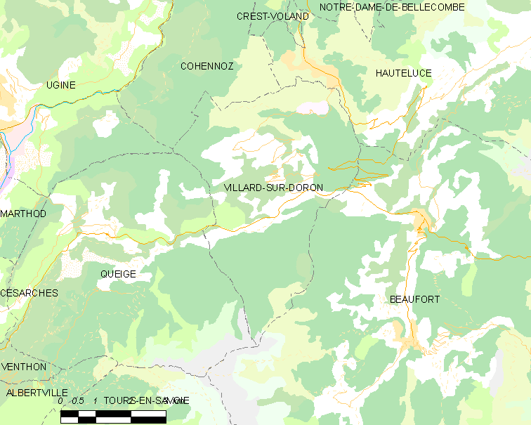 Map of French municipality Villard-sur-Doron